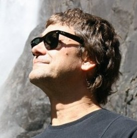 Mario Cesar Carvalho